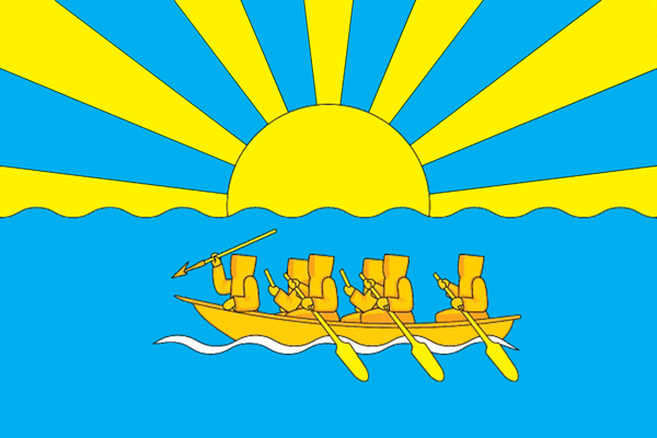 Flag of Chukotsky rayon, Chukotka AO, Russia